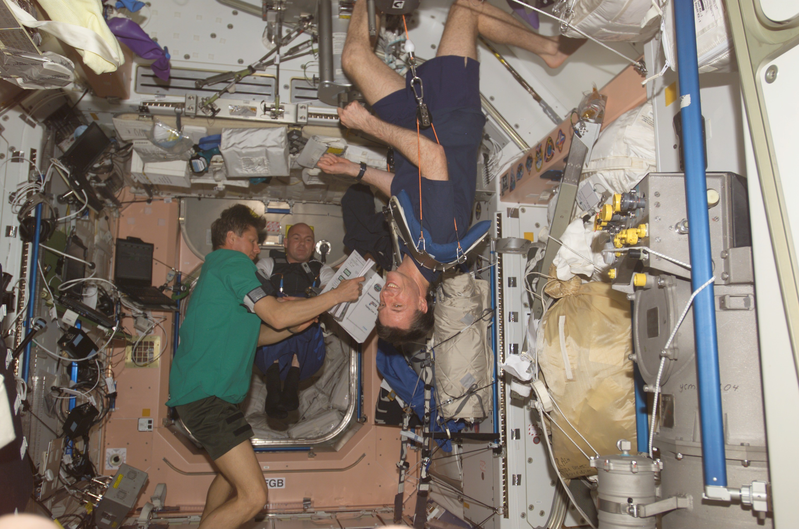 Cosmonaut Gennady I. Padalka (left), Expedition 9 commander, and European Space Agency (ESA) astronaut Andre Kuipers of the Netherlands, look over a procedures checklist for the Dutch Expedition for Life Science, Technology and Atmospheric (DELTA) Research in the Unity node of the International Space Station (ISS). Astronaut C. Michael Foale (right), Expedition 8 commander and NASA ISS science officer, exercises using the Interim Resistive Exercise Device (IRED) equipment. Padalka represents Russia's Federal Space Agency.